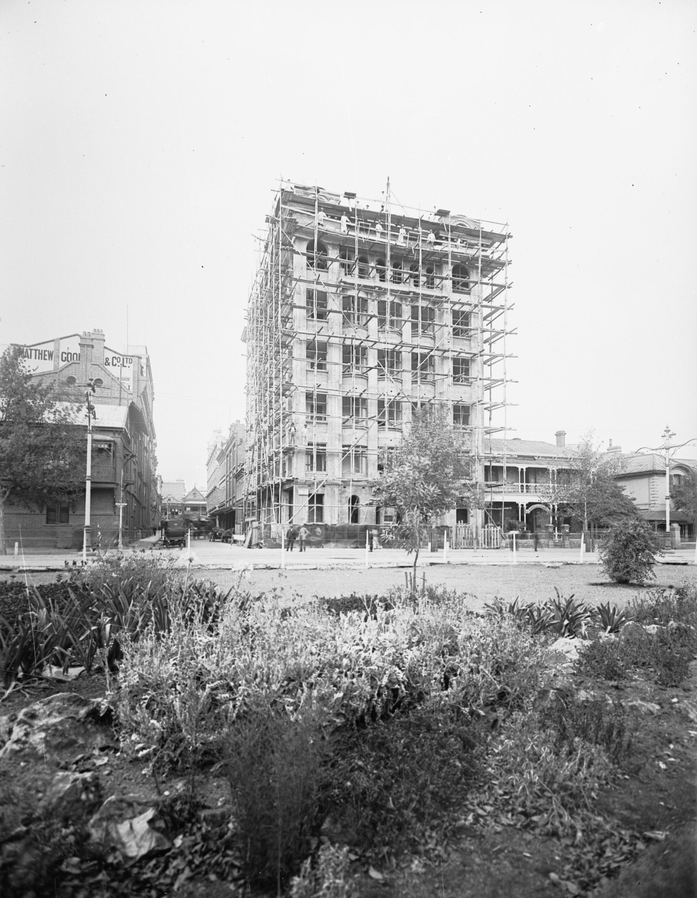 Microfiche says Vercoe - should be Verco